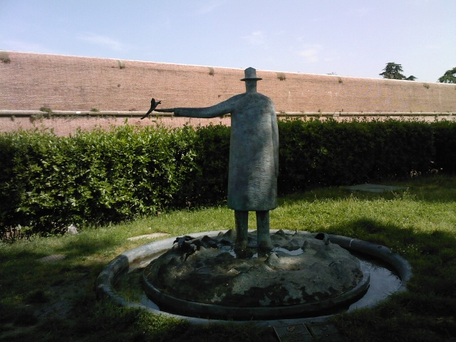 Piazza Bambine e bambini di Beslan